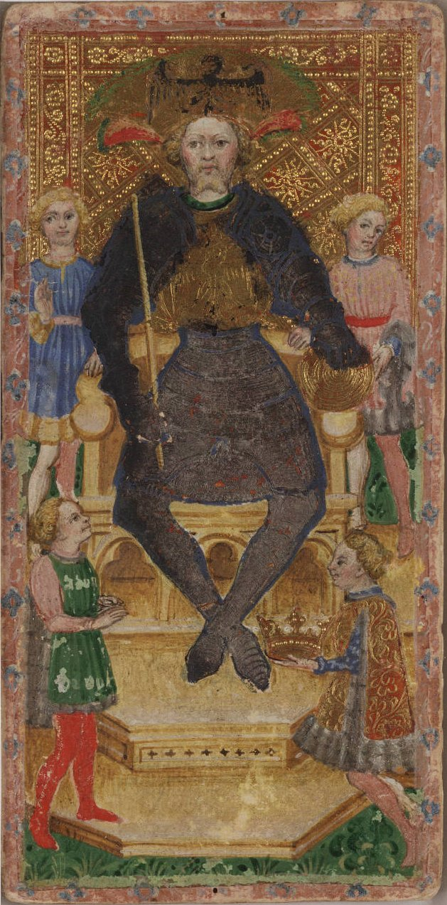 Emperor from the Visconti tarot deck.